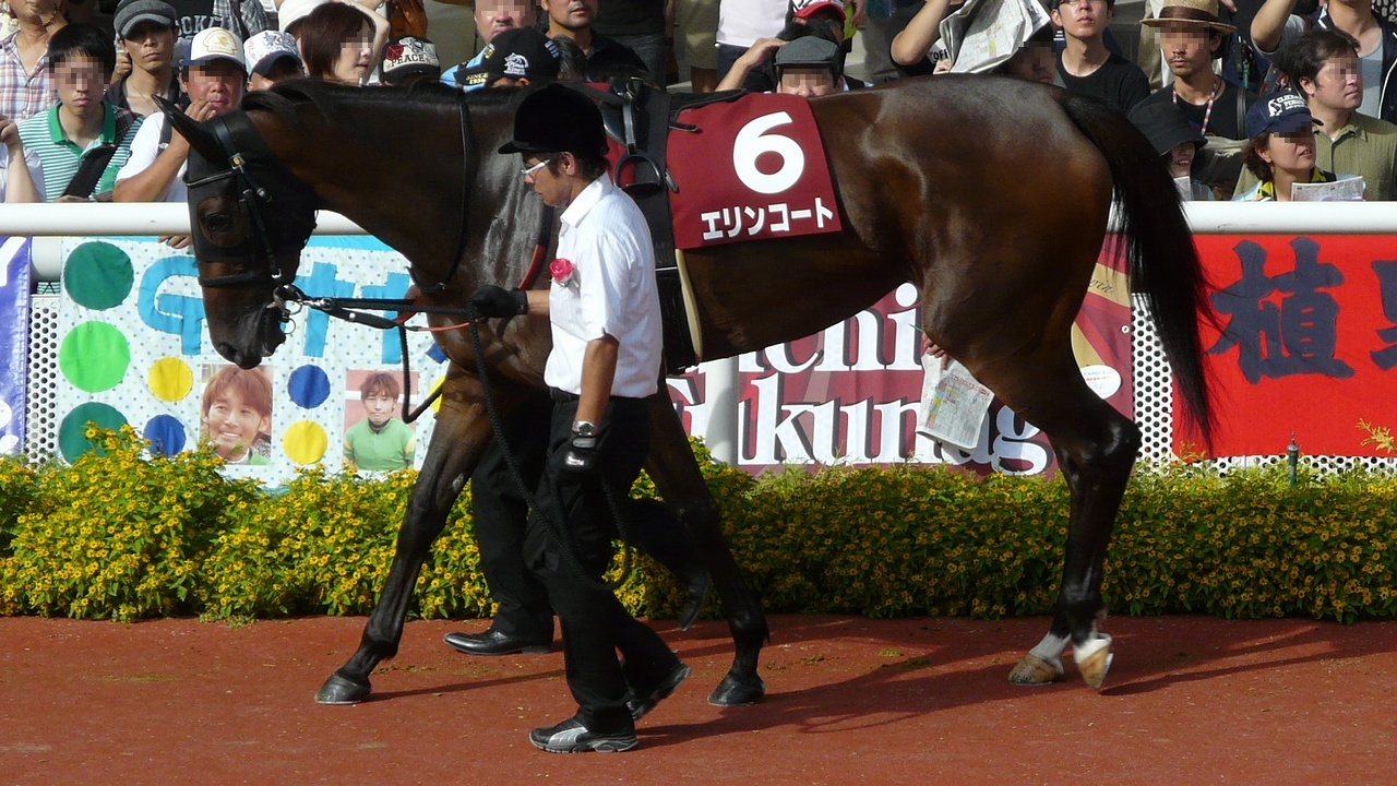 Erin-Court20110918